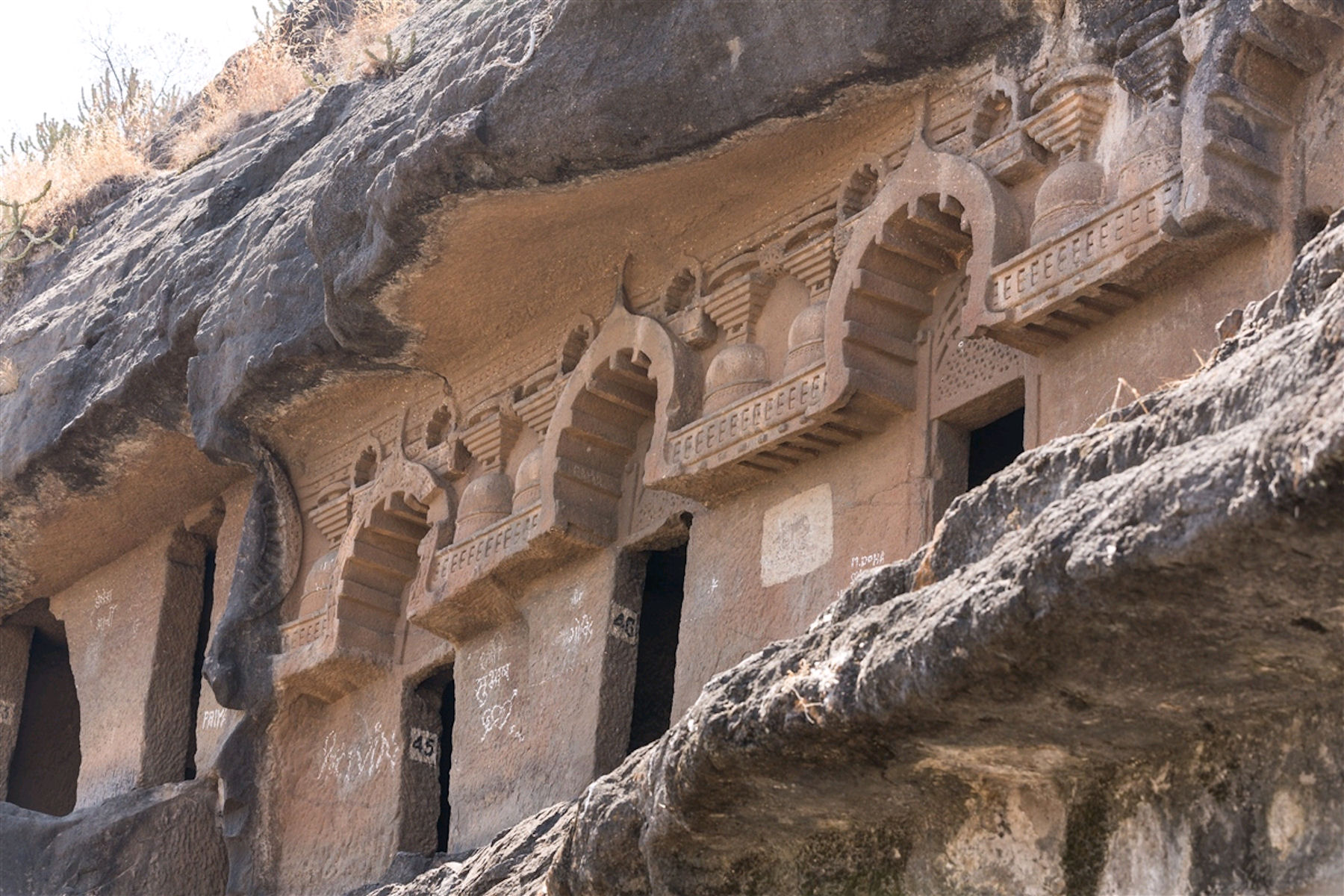 Bhutalinga Buddhist cells. 19th century drawing.